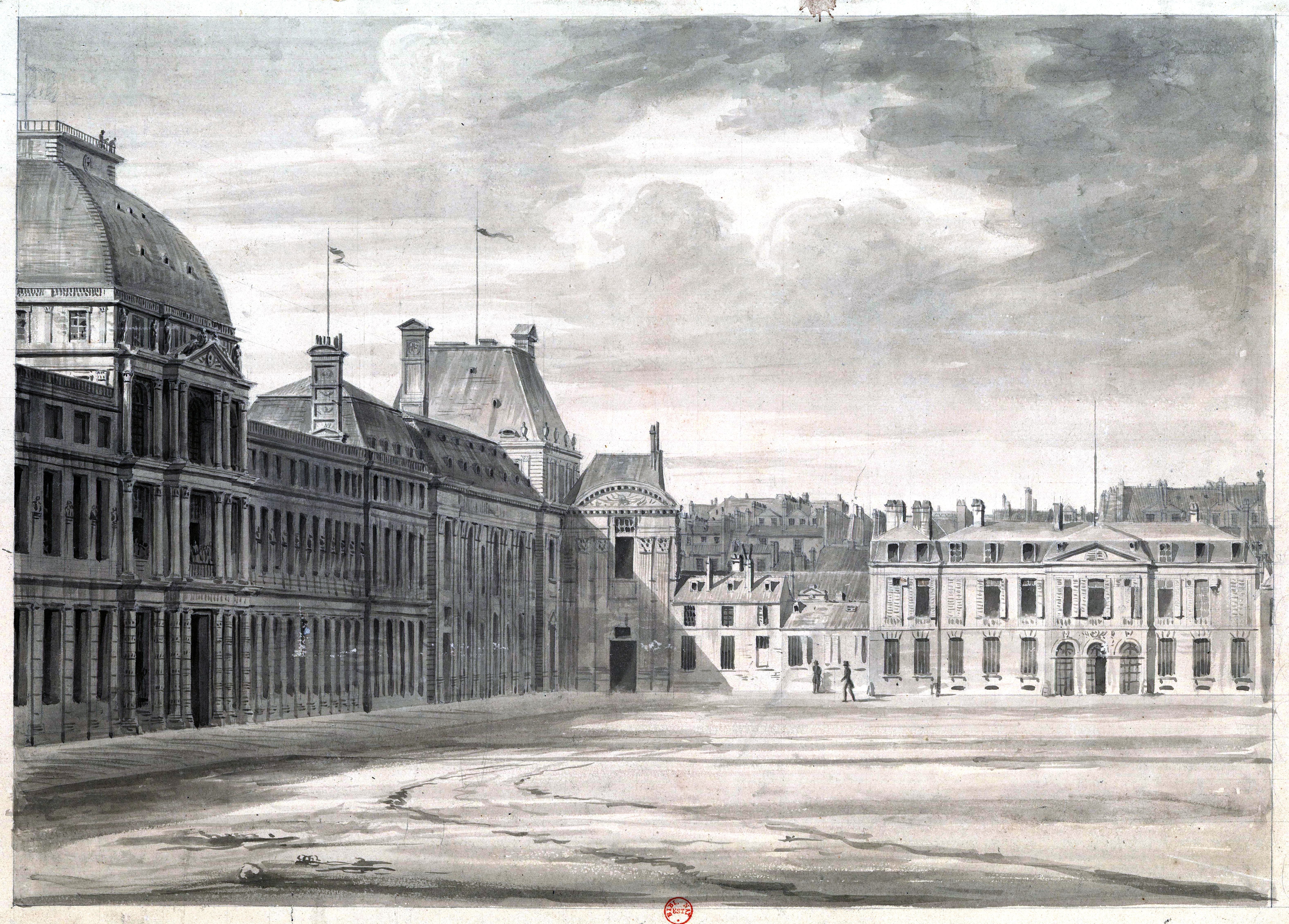 Drawing of the east facade of the Tuileries Palace in Paris and the first bay of the Louvre's Aile Nord, as constructed by Louis Le Vau in 1664–1666, and the south facade of the Hôtel de Brionne, as reconstructed by Robert de Cotte in 1735. The Hôtel de Brionne was demolished before 1811, when the Aile Nord was extended east toward the Louvre by Percier and Fontaine. It is not shown in this engraving from 1793.